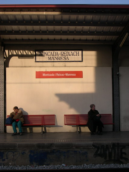 Montcada i Reixac - Manresa station, in Montcada i Reixac, Vallès Occidental, Catalonia